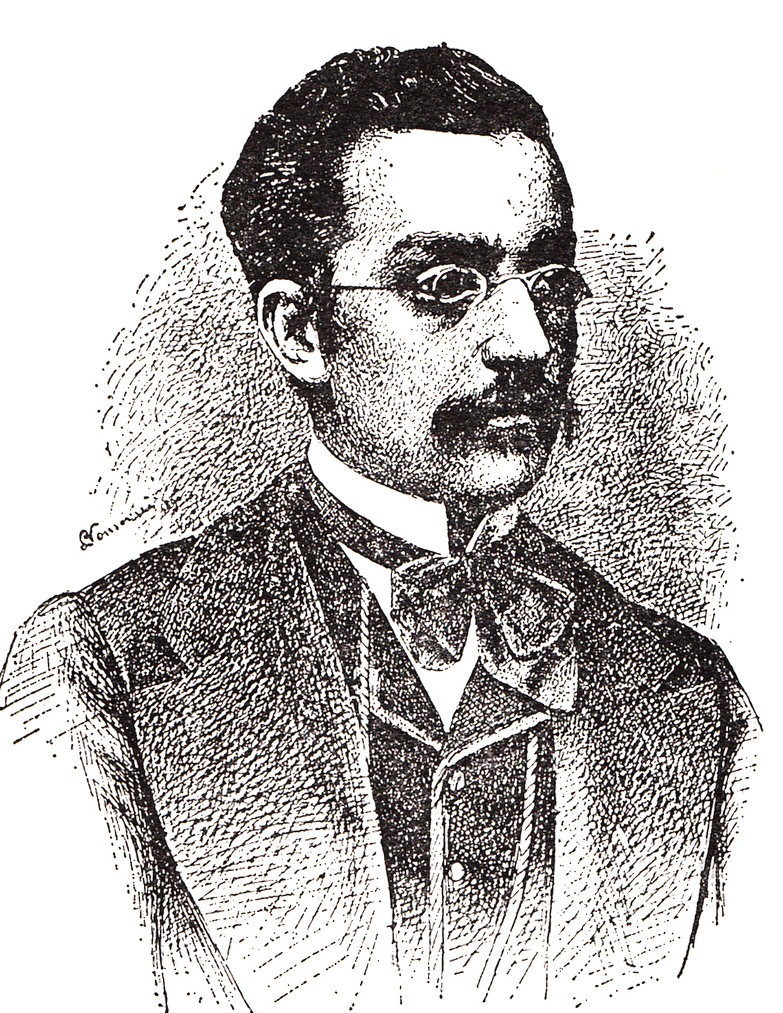 Posthumous portrait of the Romanian poet Dimitrie Petrino, drawn in ink by V. Cosmovici. Cosmovici, himself a poet, is best known as a medium who organized spiritist seances with fellow Romantic writers Bogdan Petriceicu Hasdeu and Theodor Sperantia. This drawing was first published in Hasdeu's Revista Nouă. Biographical clues in Călinescu, pages 372, 592, 1005, 1009.